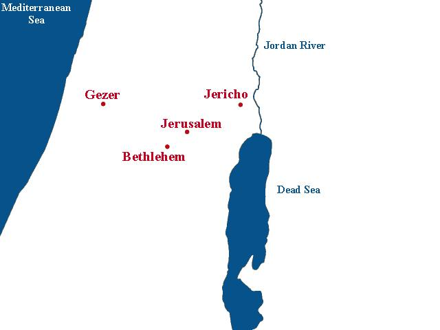 I created this map to illustrate the location of Gezer relative to Jerusalem, Jericho, and Bethlehem (as those are towns in the same region most people have heard of).